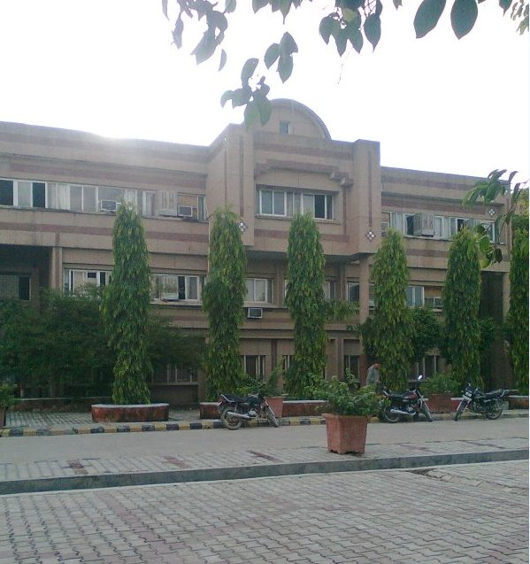 Main Building.